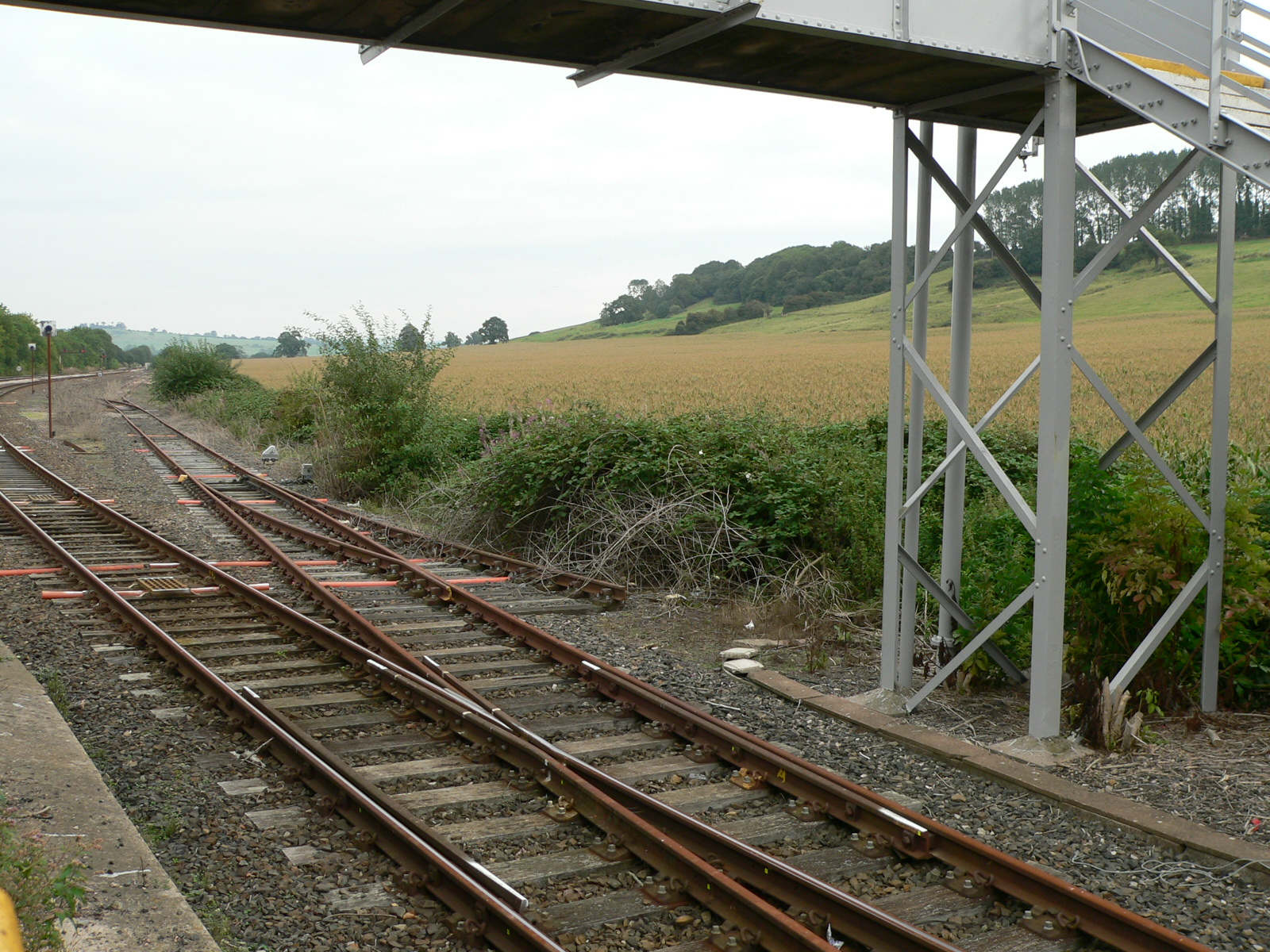 Just north of the footbridge at Castle Cary railway station in Somerset, these catch points protect the exit from the down-side sidings north of the station to the running line to and from Weymouth. The curious thing about the alignment is that any vehicles being caught by these points will immediately collide with the footbridge - almost certainly causing damage to both. Photographed from the northern end of platform 3.